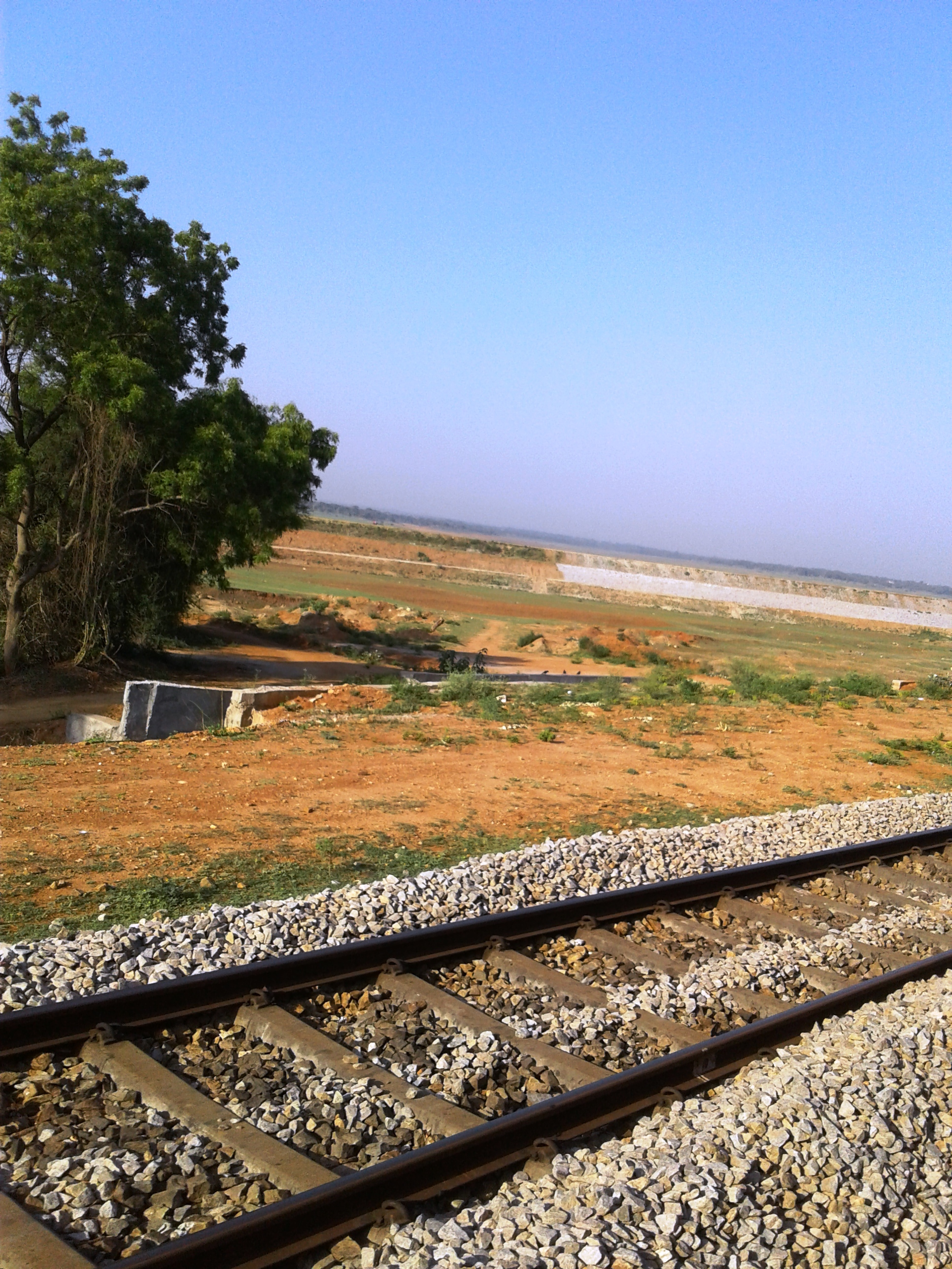 Mandya district, Karnataka State, India